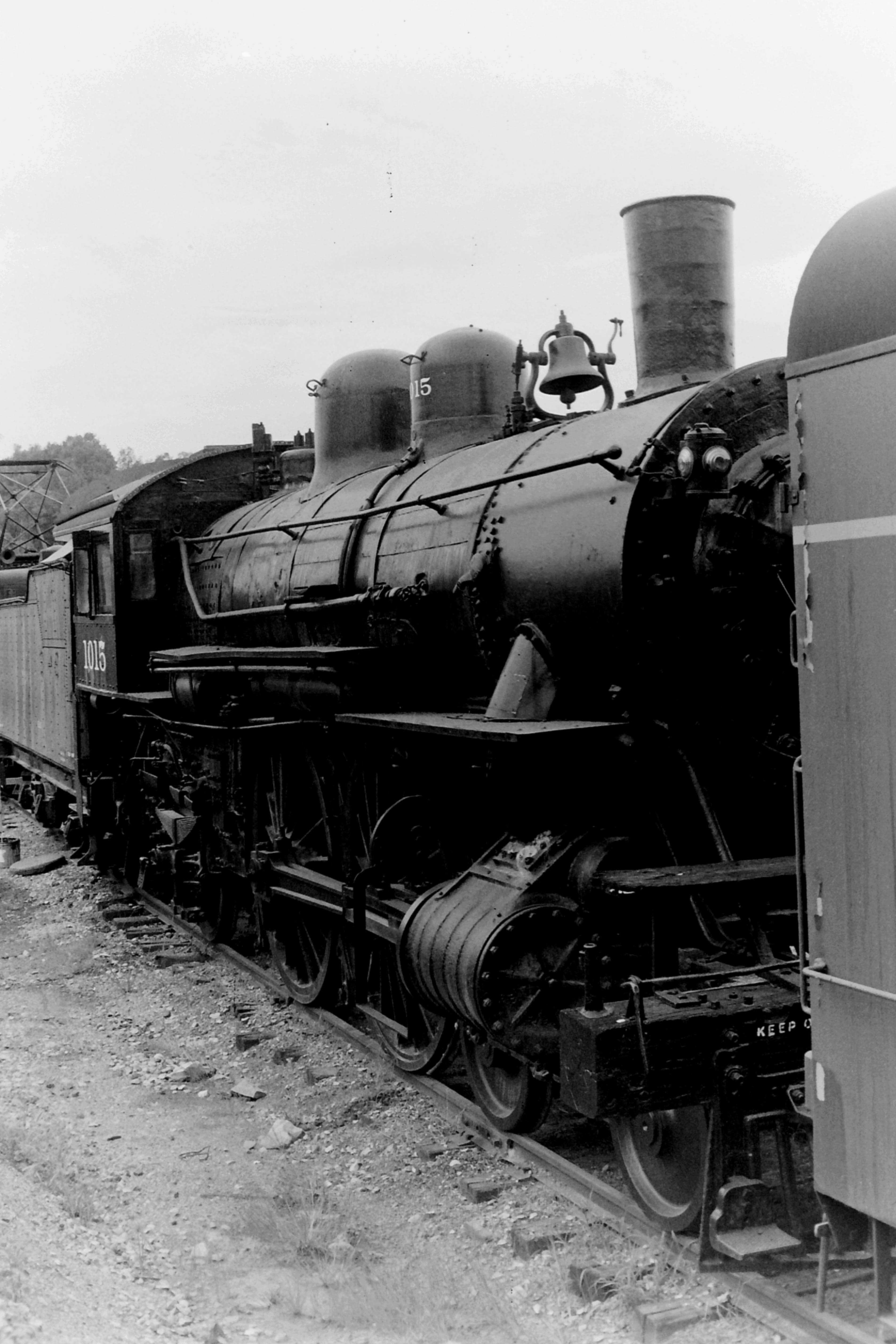 Chicago & North Western RR "D" Class 4-4-2 No.1015, built by ALCO 1900, at the National Museum of Transport St Louis, 8/70. 91 "D's" were built 1900-08 and were one of the earliest designs with piston valves and Walschaerts valve gear, although 10 built in 1908 had Young rotary valves.